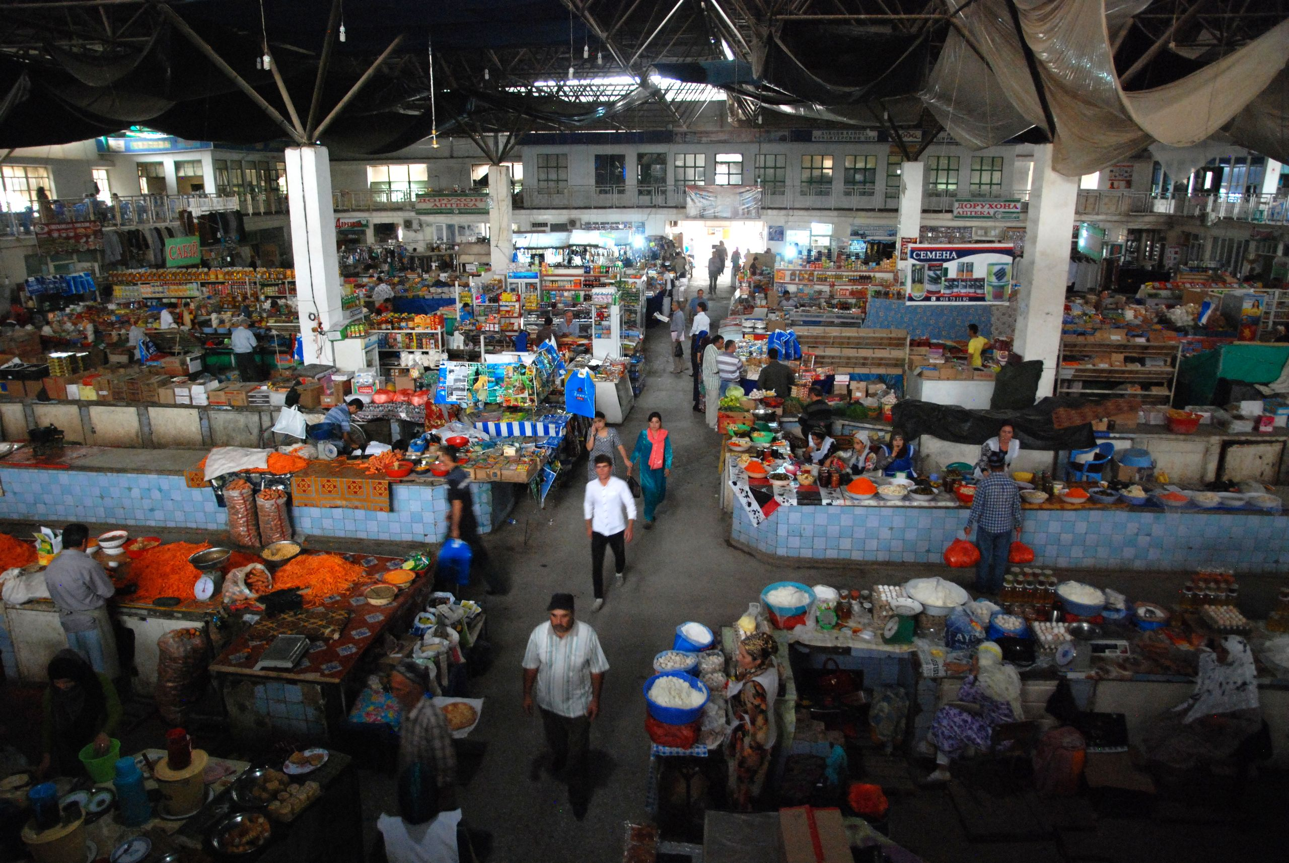 Kulob, main market